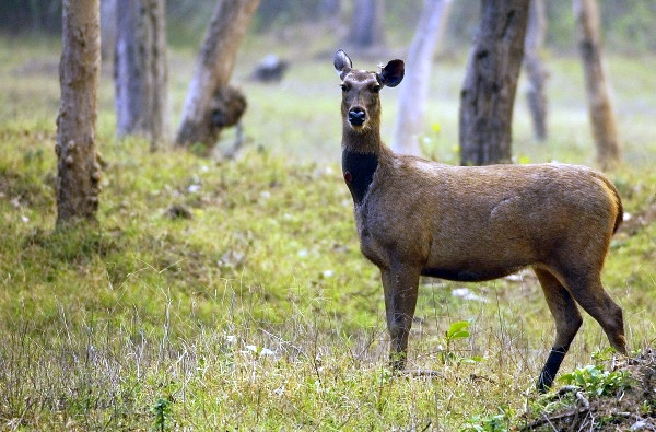 Female sambar from Kabini